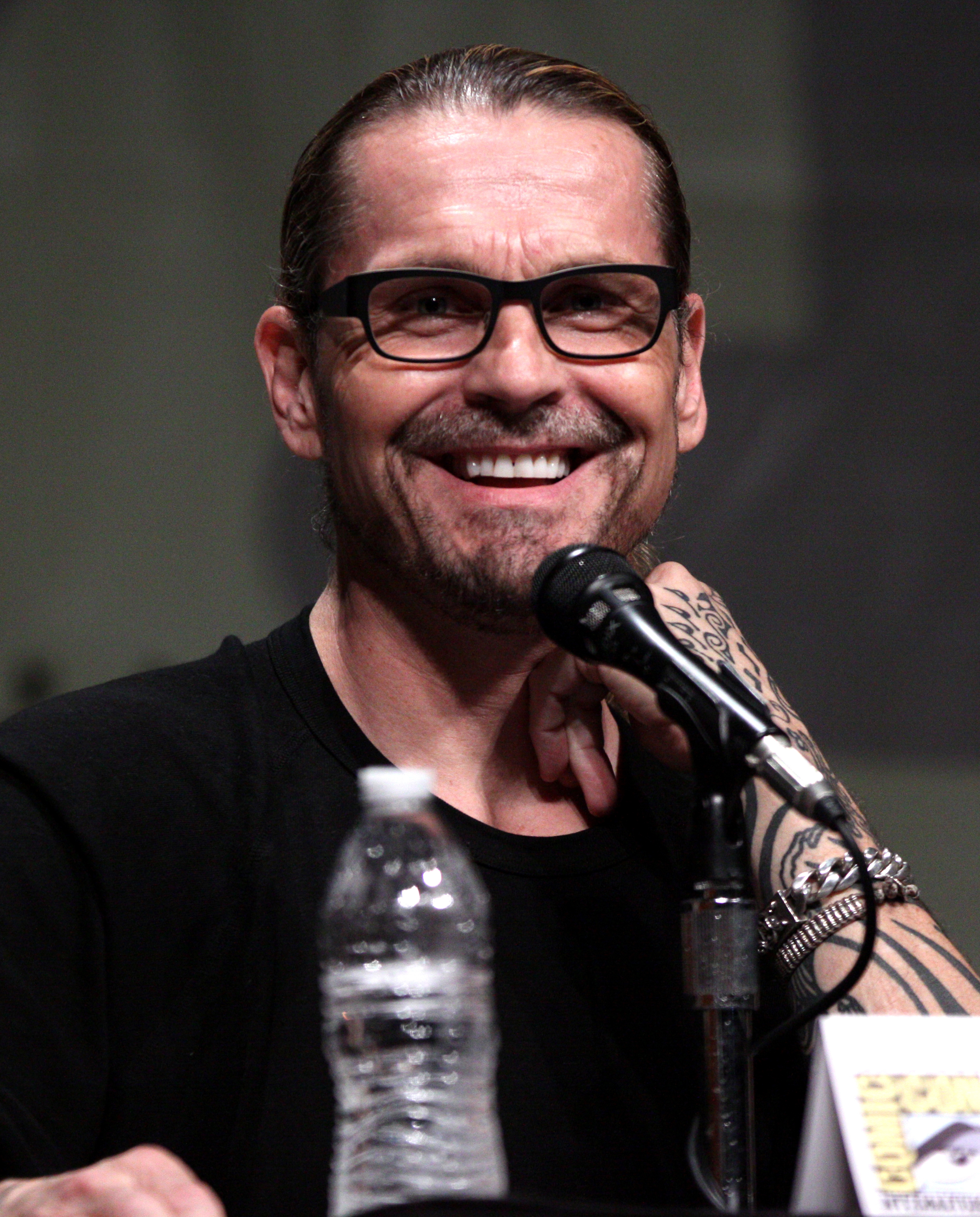 Kurt Sutter at the 2012 Comic-Con in San Diego.